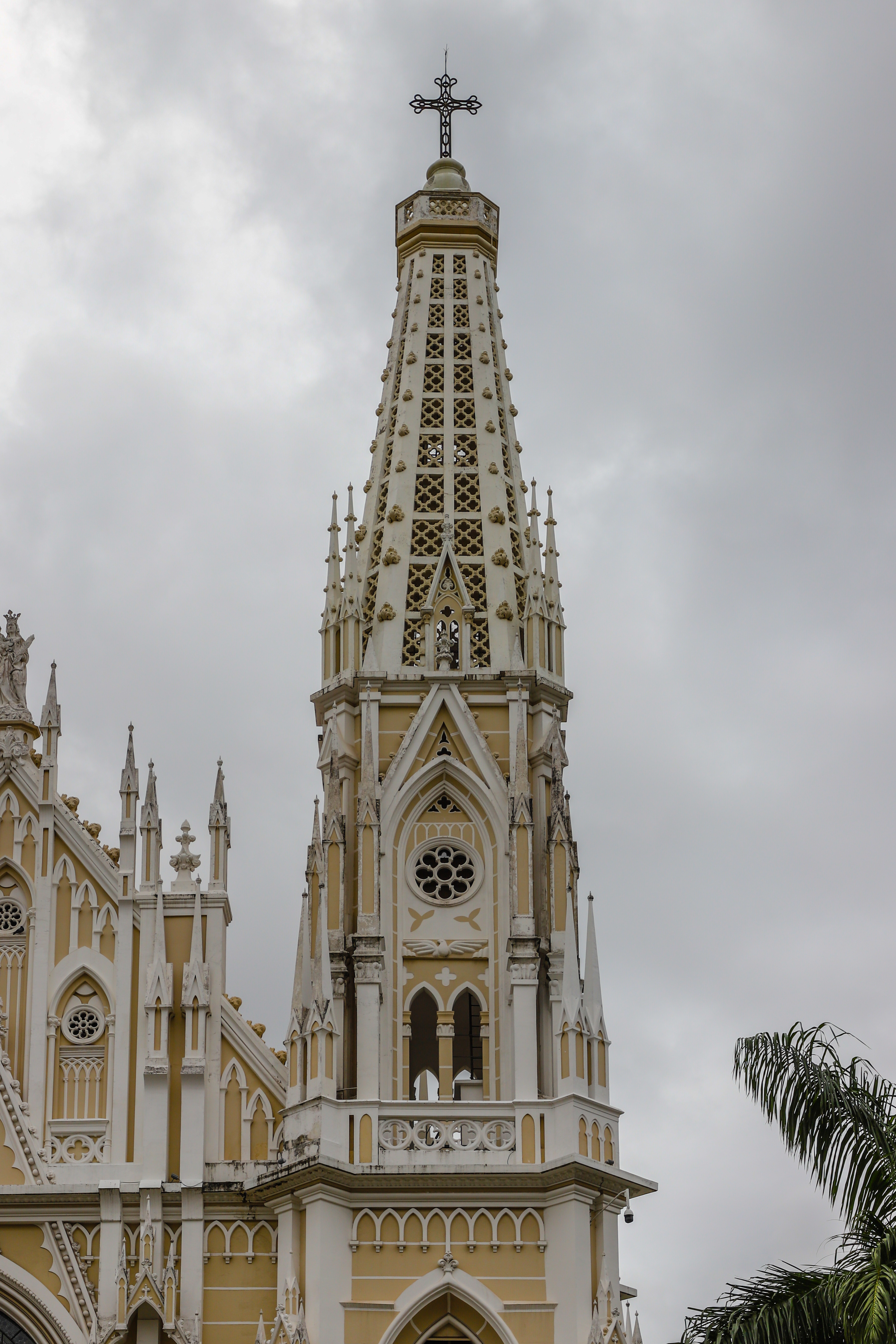 Our Lady of Victory Cathedral, Vitória, Espírito Santo, Brazil.